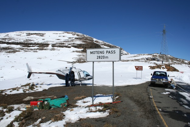 Jaco van Tonder 2006